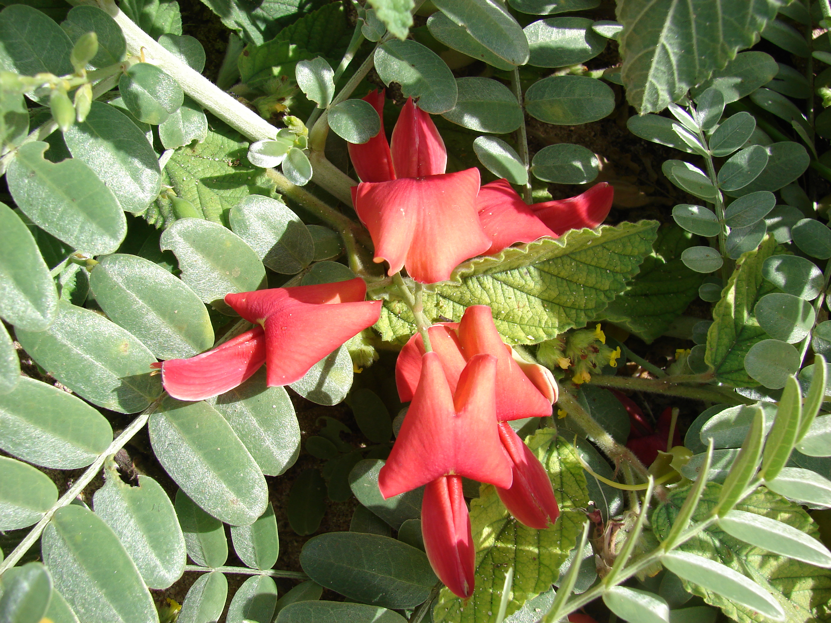 Sesbania tomentosa (flowers). Location: Maui, Kanaha Beach